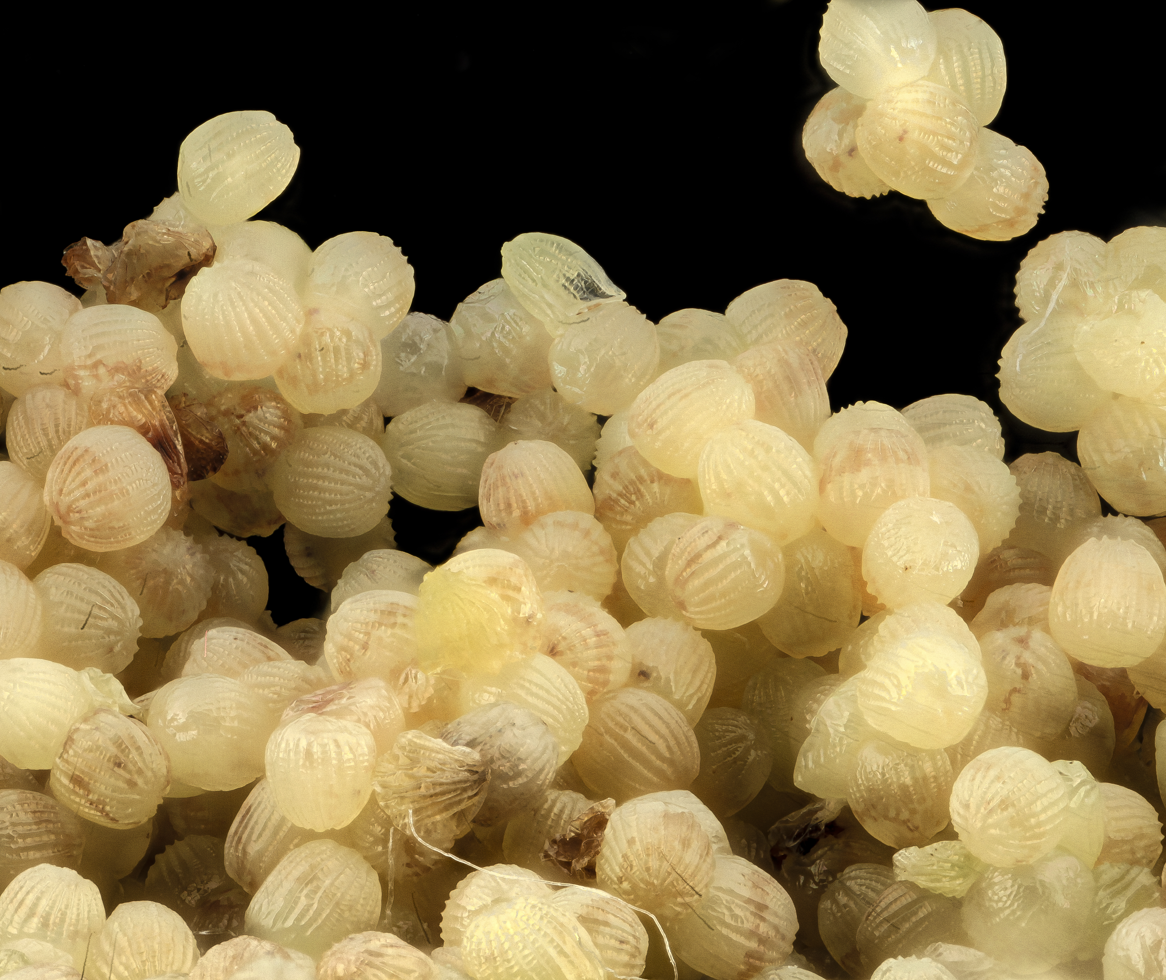 Helicoverpa zea - Corn Earworm - According to Wikipedia its the second most economically damaging insect pest in North America, chewing on a wide variety of crop plants. This most certainly is true, but it also not a bad looking animal when viewed close up. Perhaps we will take a little more time to think about this species now than have by simply labeling it a problem. Specimens provided by Benzon Research. 15:42, 3 February 2015 (UTC)15:42, 3 February 2015 (UTC) 0 15:42, 3 February 2015 (UTC)15:42, 3 February 2015 (UTC) All photographs are public domain, feel free to download and use as you wish. Photography Information: Canon Mark II 5D, Zerene Stacker, Stackshot Sled, 65mm Canon MP-E 1-5X macro lens, Twin Macro Flash in Styrofoam Cooler, F5.0, ISO 100, Shutter Speed 200 Further in Summer than the Birds Pathetic from the Grass A minor Nation celebrates Its unobtrusive Mass. No Ordinance be seen So gradual the Grace A pensive Custom it becomes Enlarging Loneliness. Antiquest felt at Noon When August burning low Arise this spectral Canticle Repose to typify Remit as yet no Grace No Furrow on the Glow Yet a Druidic Difference Enhances Nature now -- Emily Dickinson Contact information: Sam Droege 301 497 5840